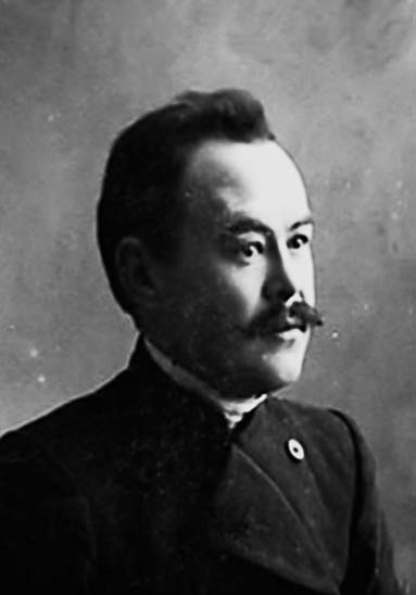 Muhammad-Gabdelhay Qurbangaliev